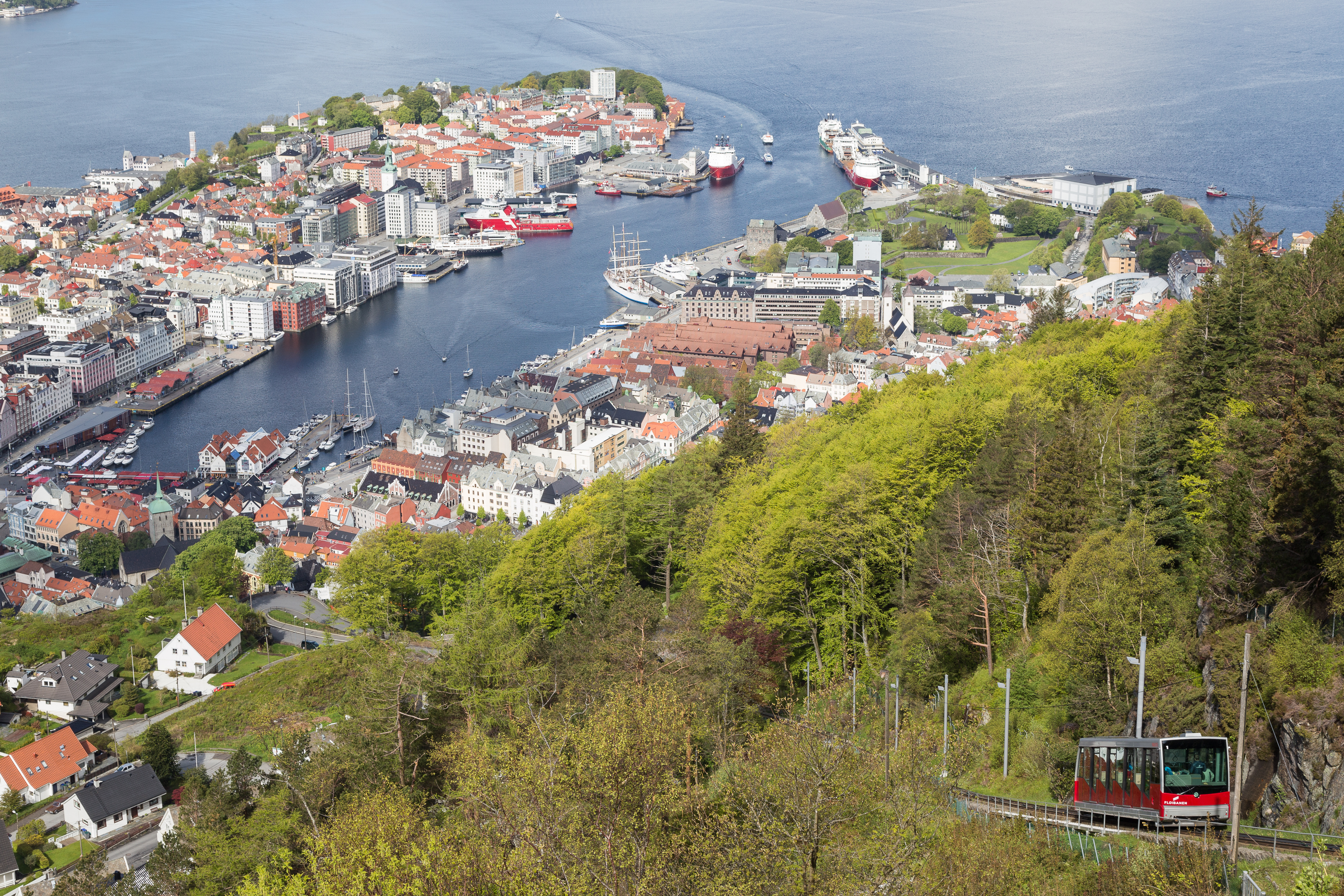 Bergen (Norway): Fløibanen car Rødhette climbs above the city, as seen from the summit